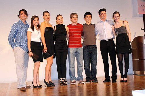 Team Canada at the 2009 ISU World Team Trophy in Figure Skating. From left to right: Bryce Davison, Jessica Dubé, Cynthia Phaneuf, Joannie Rochette, Vaughn Chipeur, Patrick Chan, Scott Moir, Tessa Virtue